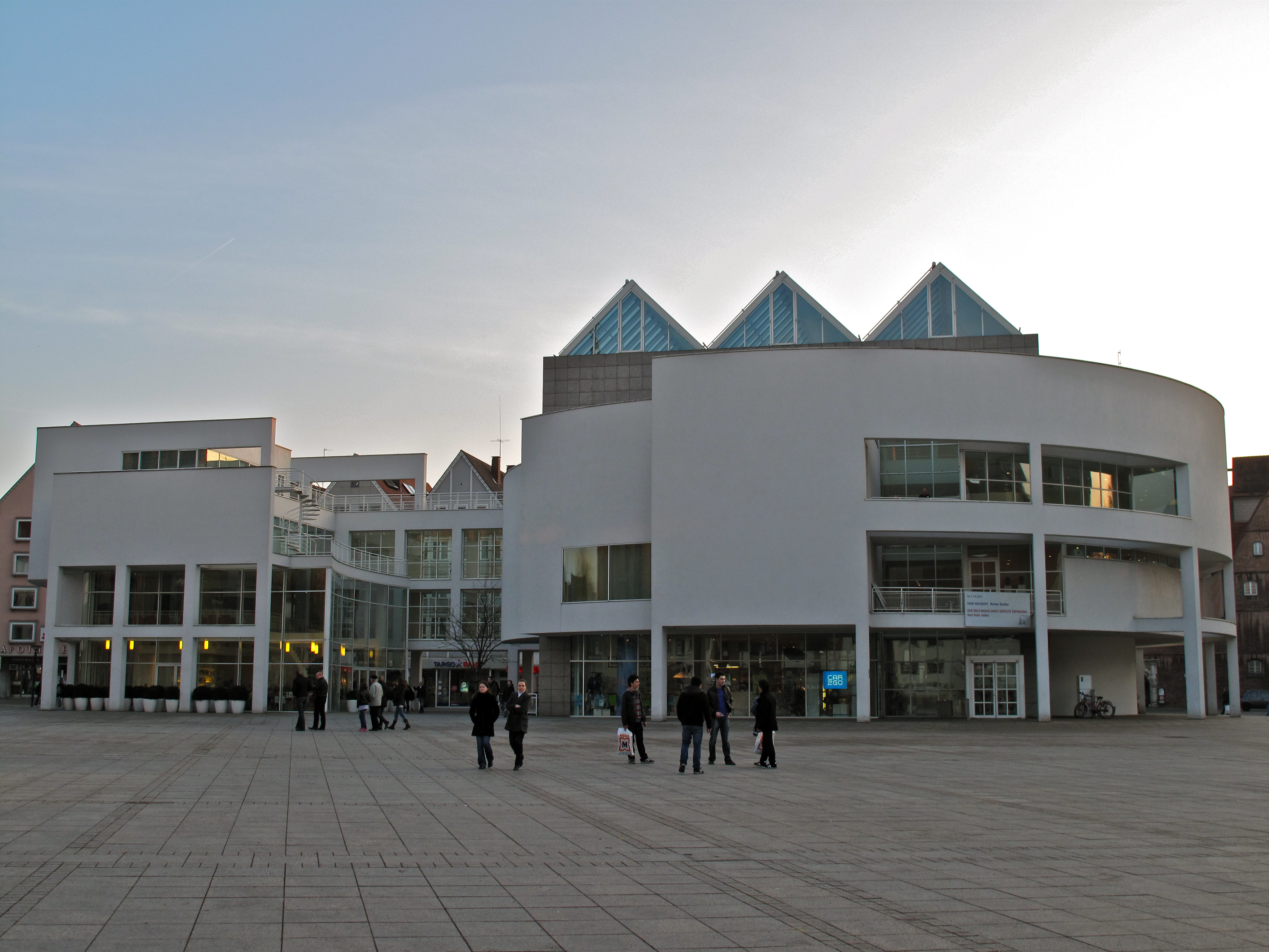 The Stadthaus of Ulm at the Münsterplatz in the city centre of Ulm.